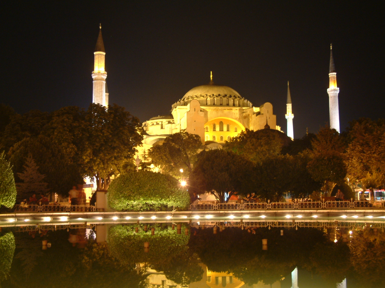 Hagia Sophia by night